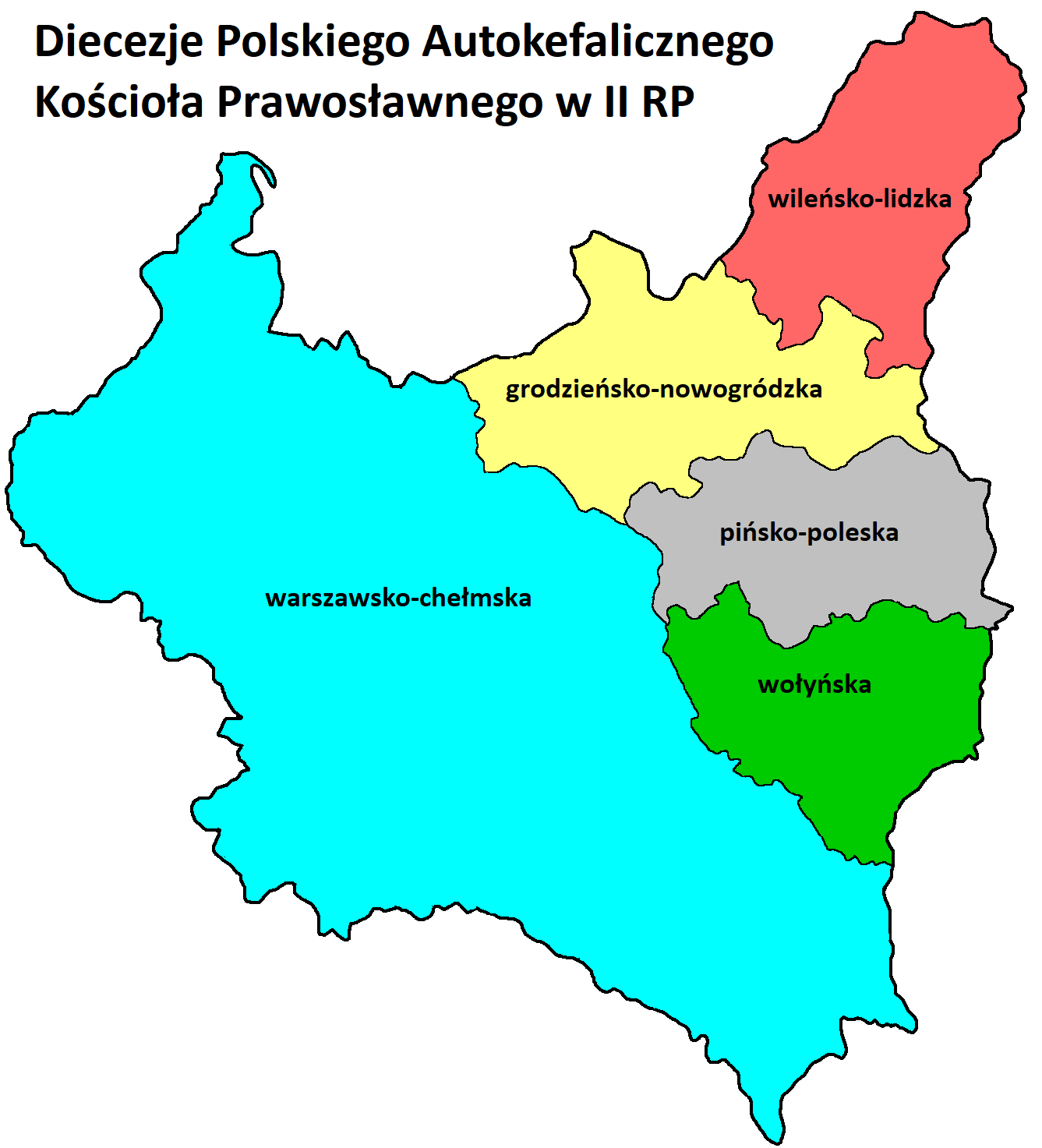 Dioceses of Polish Orthodox Church in interwar period.